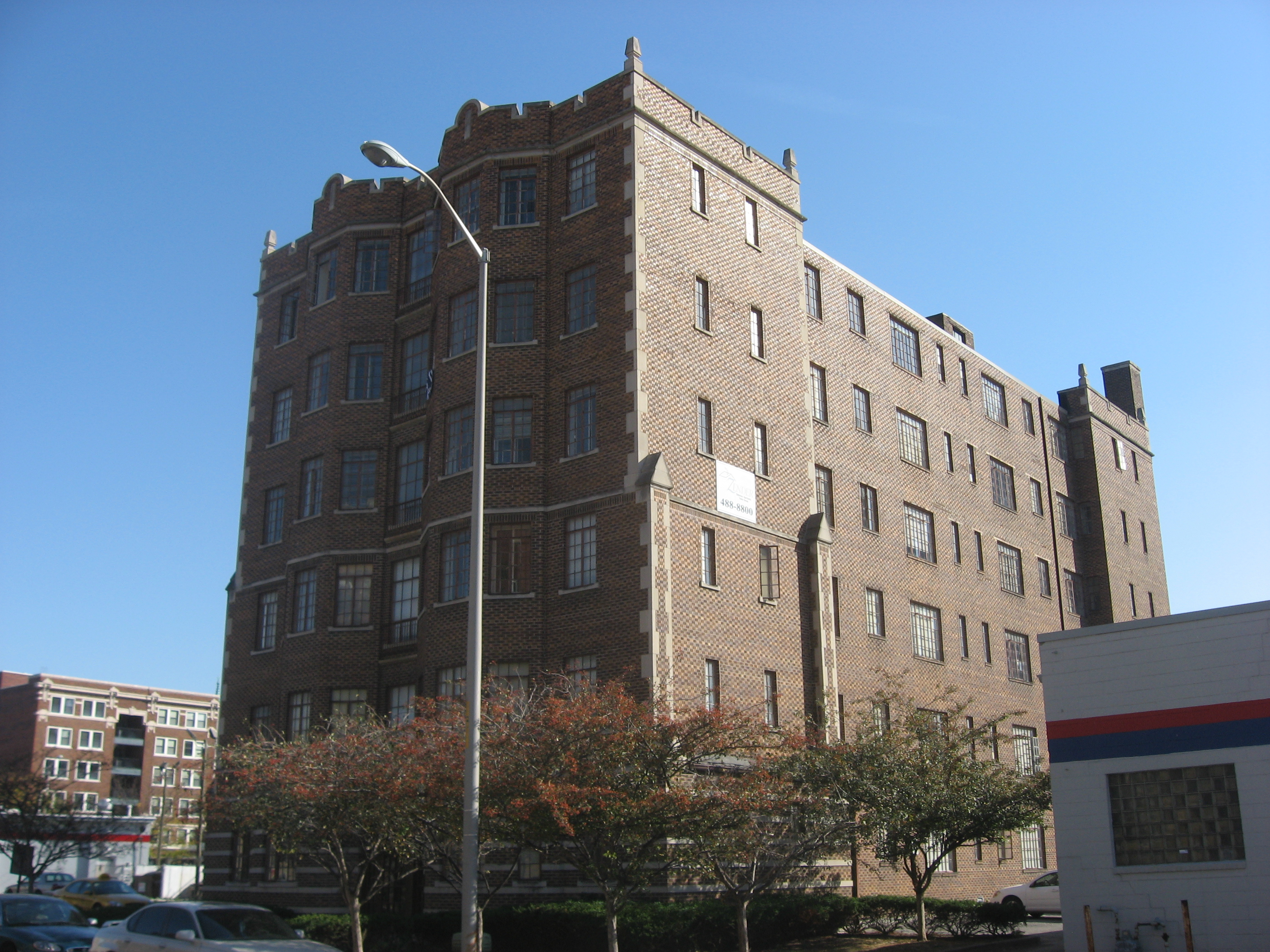 Southern and eastern sides of The Dartmouth, located at 221 E. Michigan Street in Indianapolis, Indiana, United States. Built in 1930, it is listed on the National Register of Historic Places.